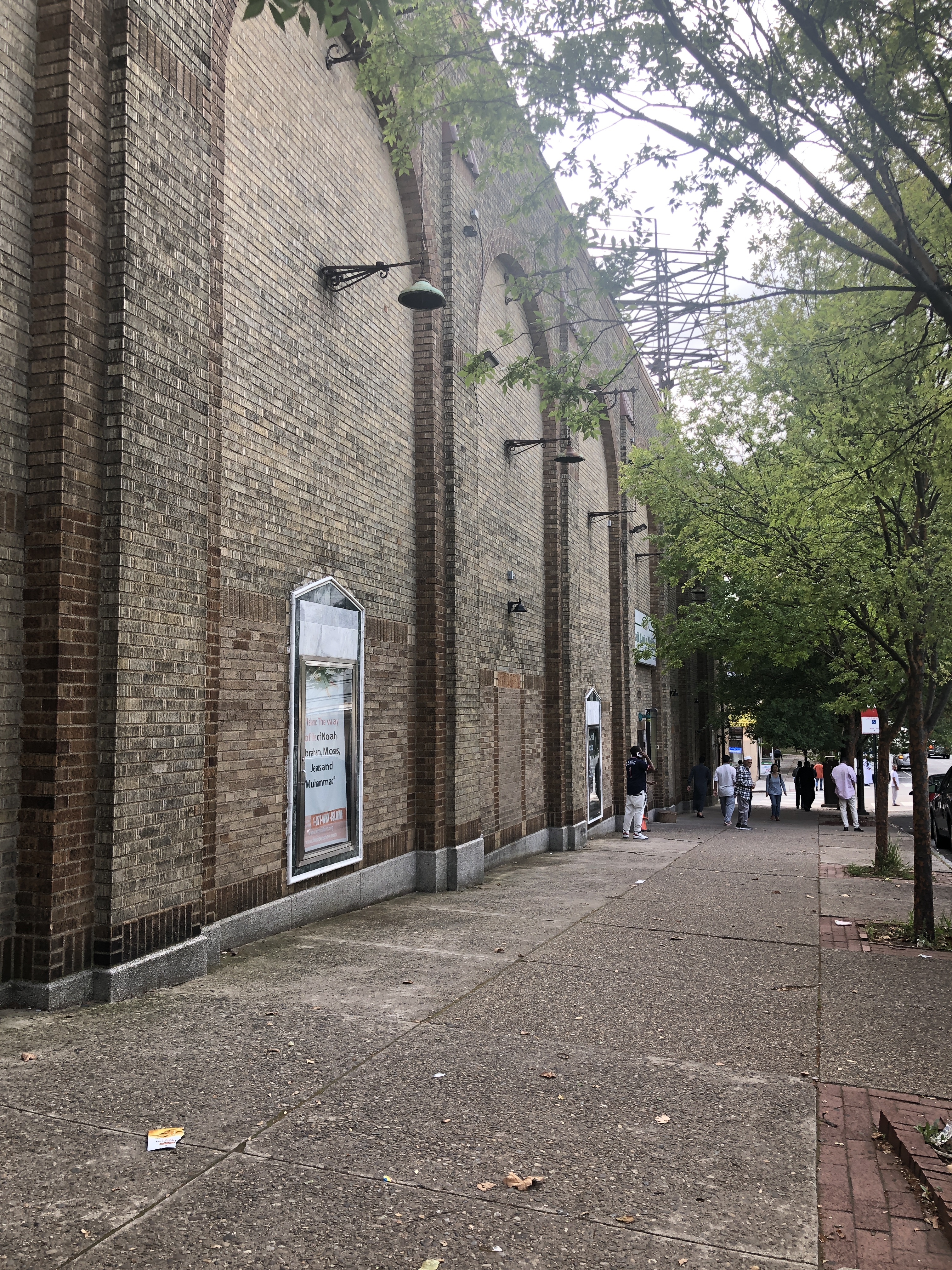 Building View of Masjid Al-Jamia of Philadelphia